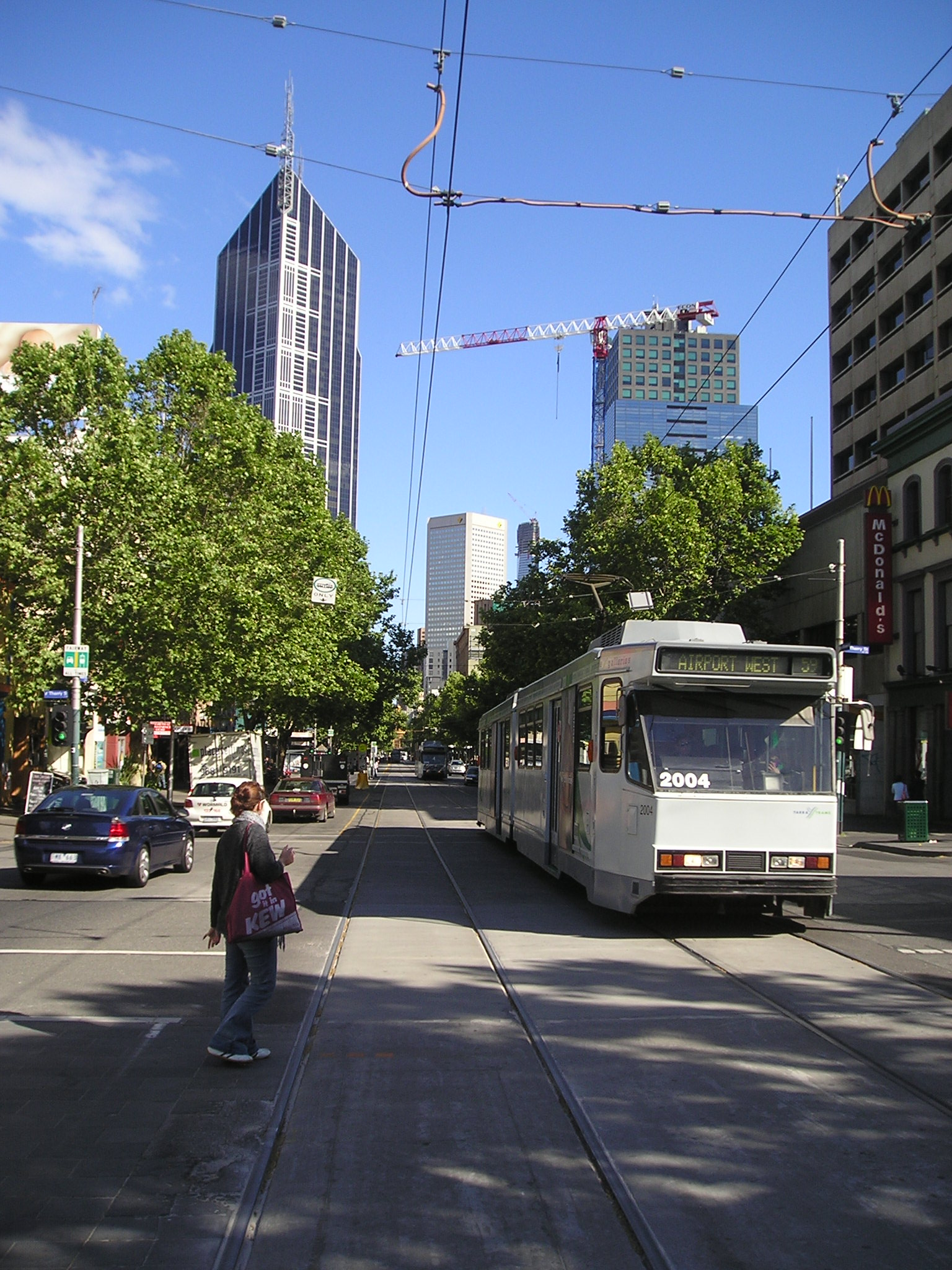 B class tram in Elizabeth Street, Melbourne.